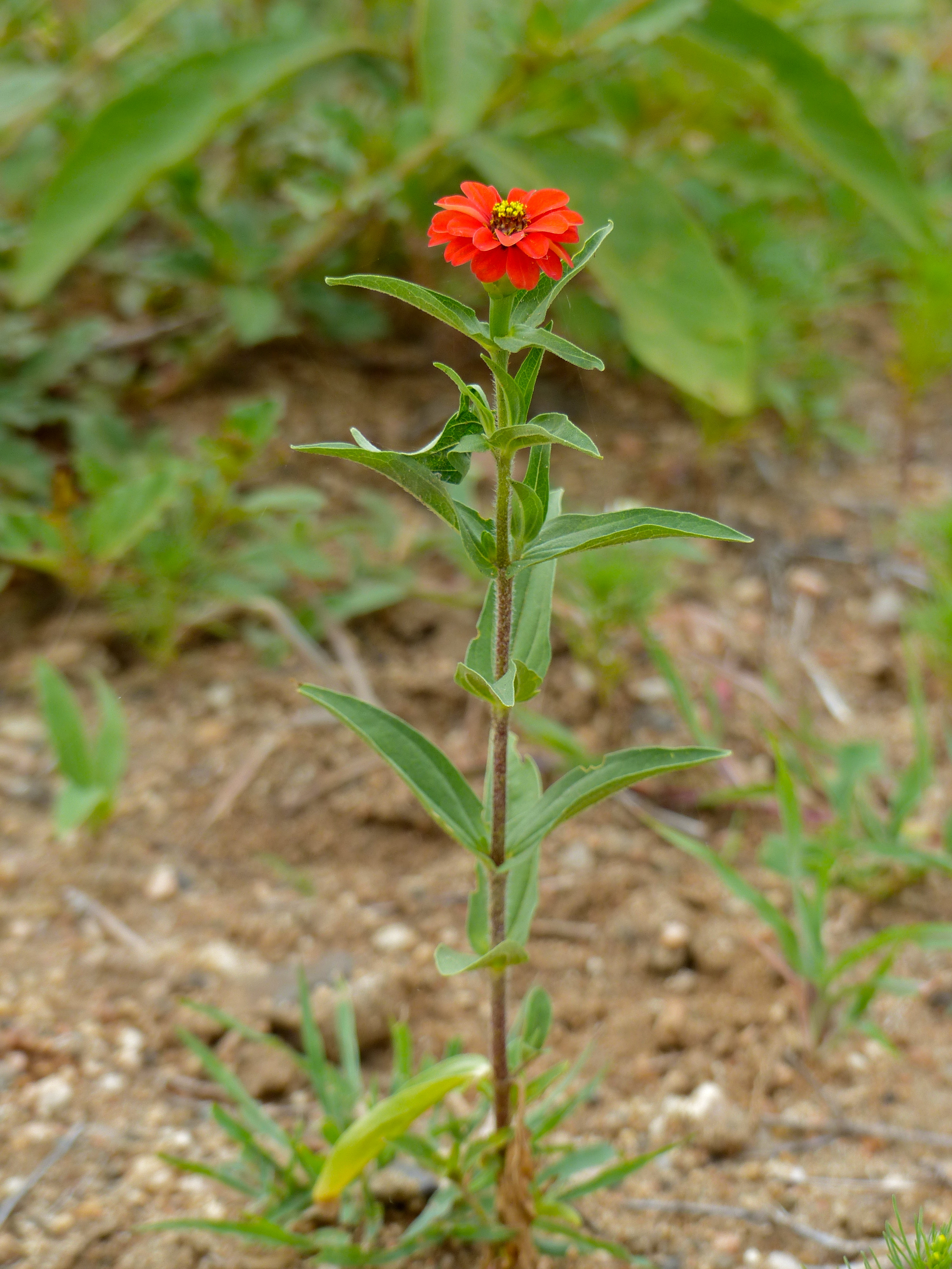 Rabelais Loop, East of Orpen, Kruger NP, SOUTH AFRICA